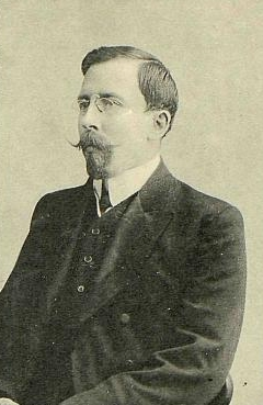 Sadri Maksudi Arsal